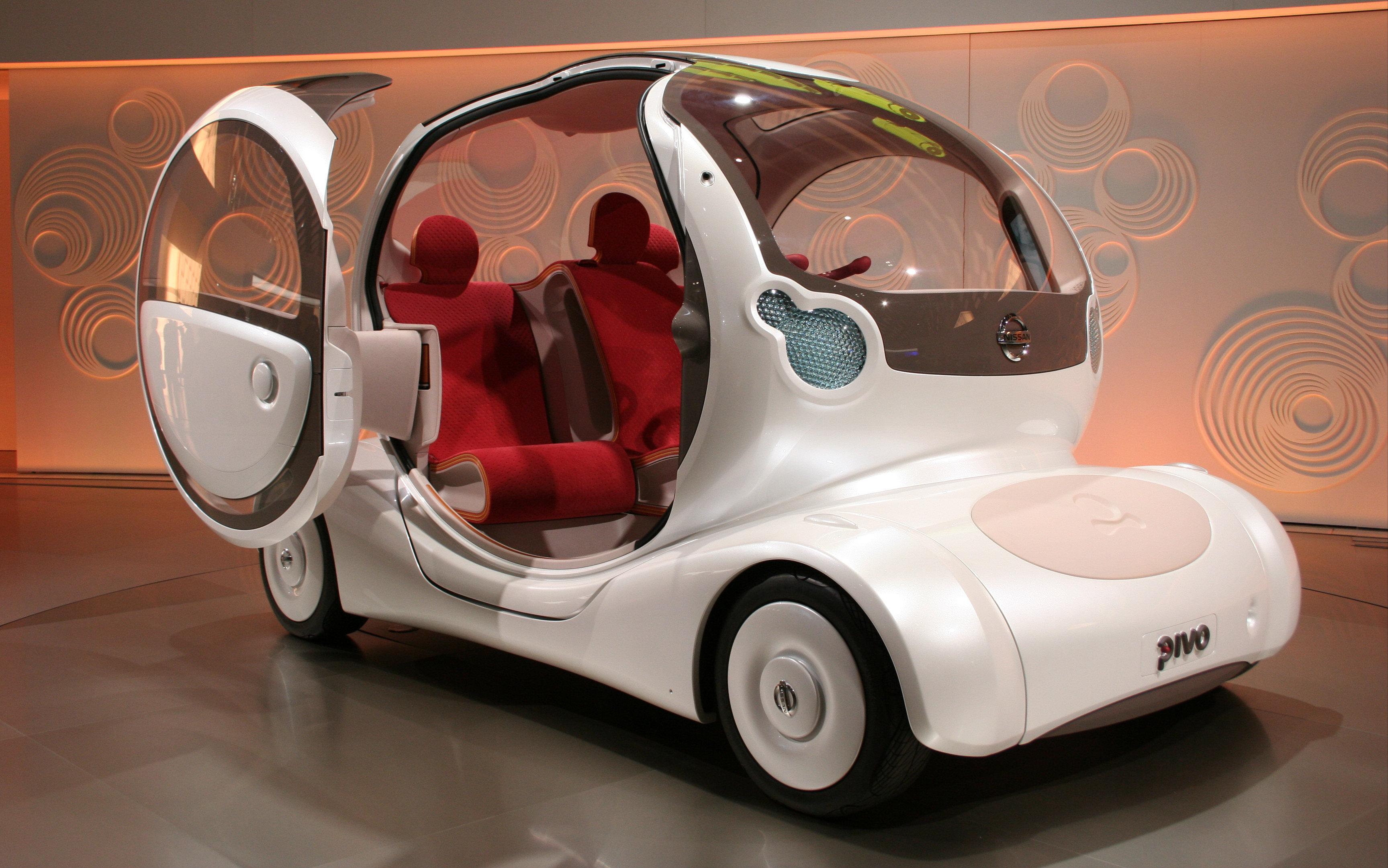 Nissan Pivo at the 2005 Tokyo Motor Show